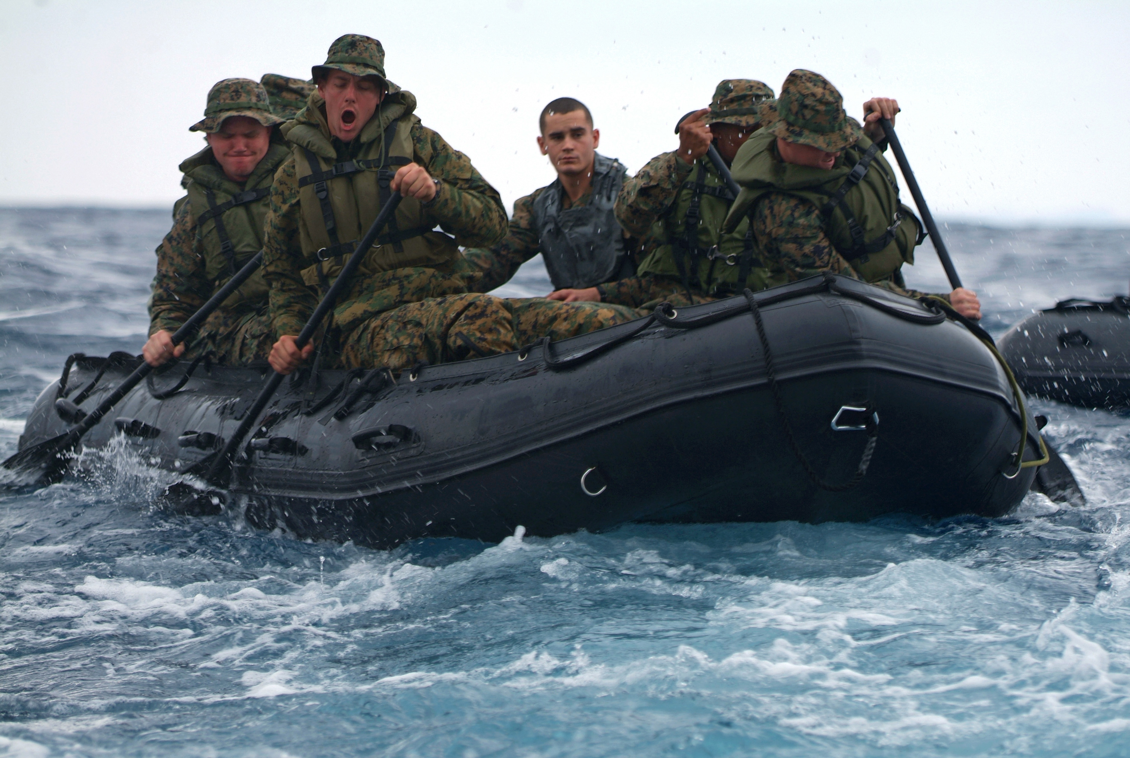 U.S. Marines aboard a combat rubber raiding craft steer away from the well deck aboard USS Harpers Ferry (LSD 49) Feb. 3, 2008, after being launched during blue-green workups while off the coast of Okinawa, Japan.